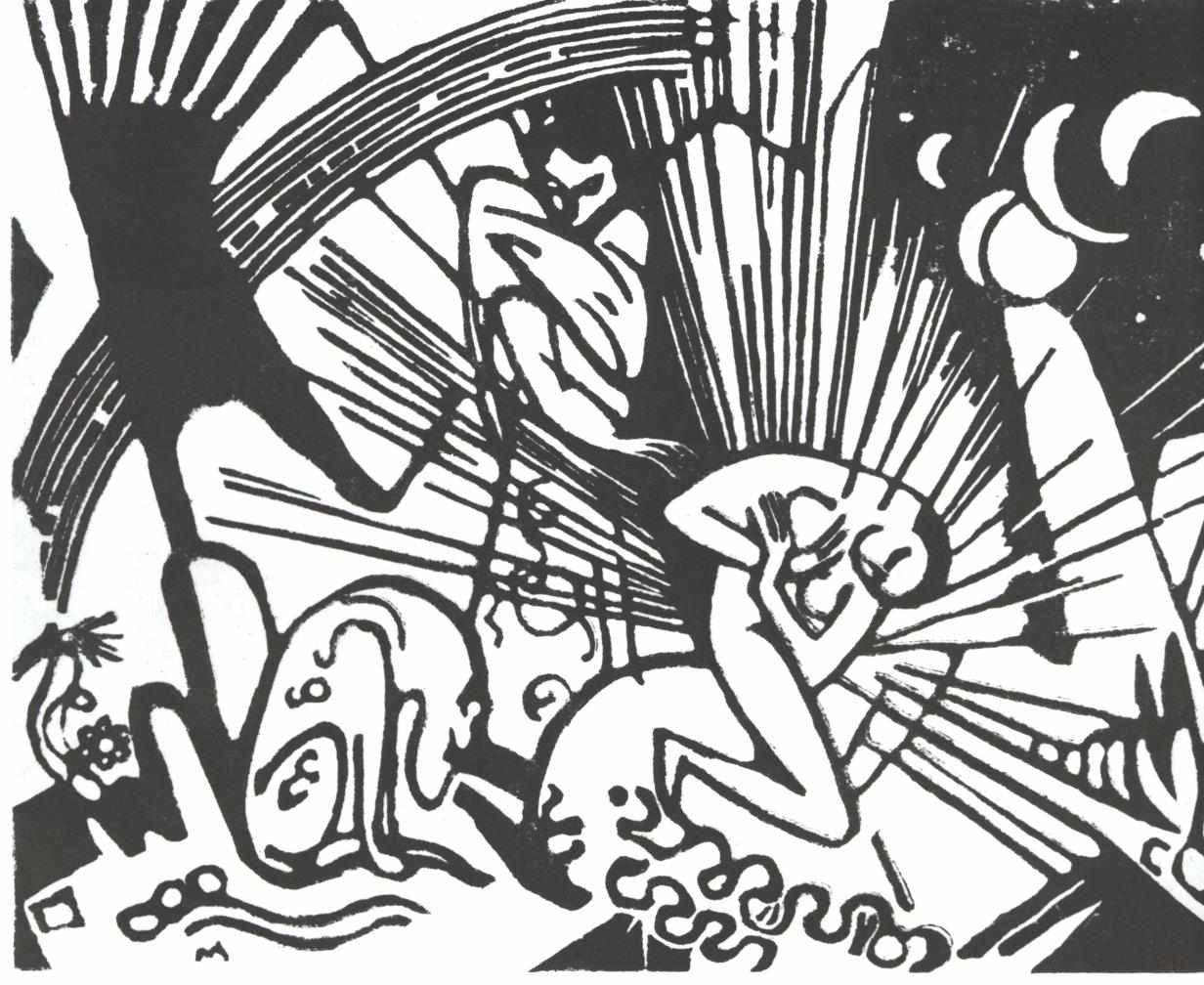 Reconciliation